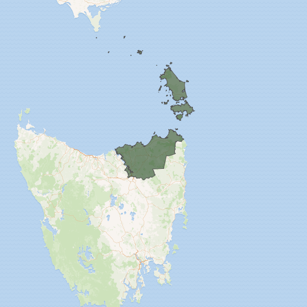 Electoral boundaries from Administrative Boundaries [May 2016] ©PSMA Australia Limited licensed by the Commonwealth of Australia under Creative Commons Attribution 4.0 International licence (CC BY 4.0): Background map layer and image thumbnail generated by Wikimedia maps; Creative Commons Attribution-ShareAlike 4.0 International licence (CC BY-SA 4.0).